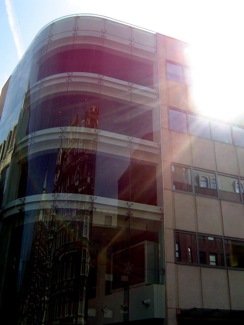 The EMI building, around the corner of High Street Kensington underground station, in Wrights Lane W8. The building was formerly the London offices of Penguin Books until 2000. Photograph Taken by: Omernos Category:Images of London